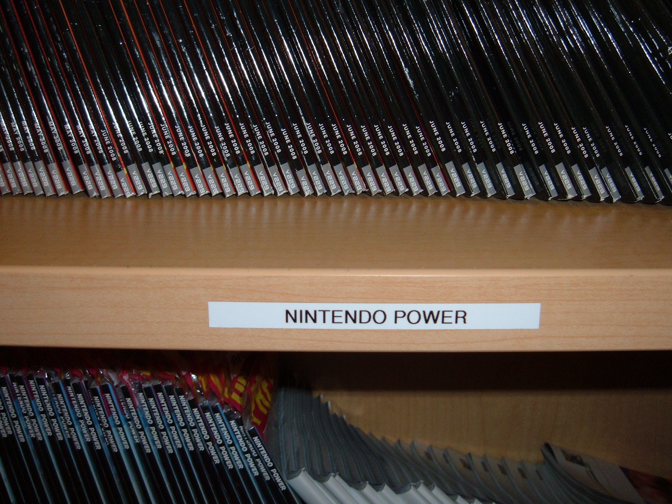 Copies of Nintendo Power at Future US headquarters in South San Francisco, California.